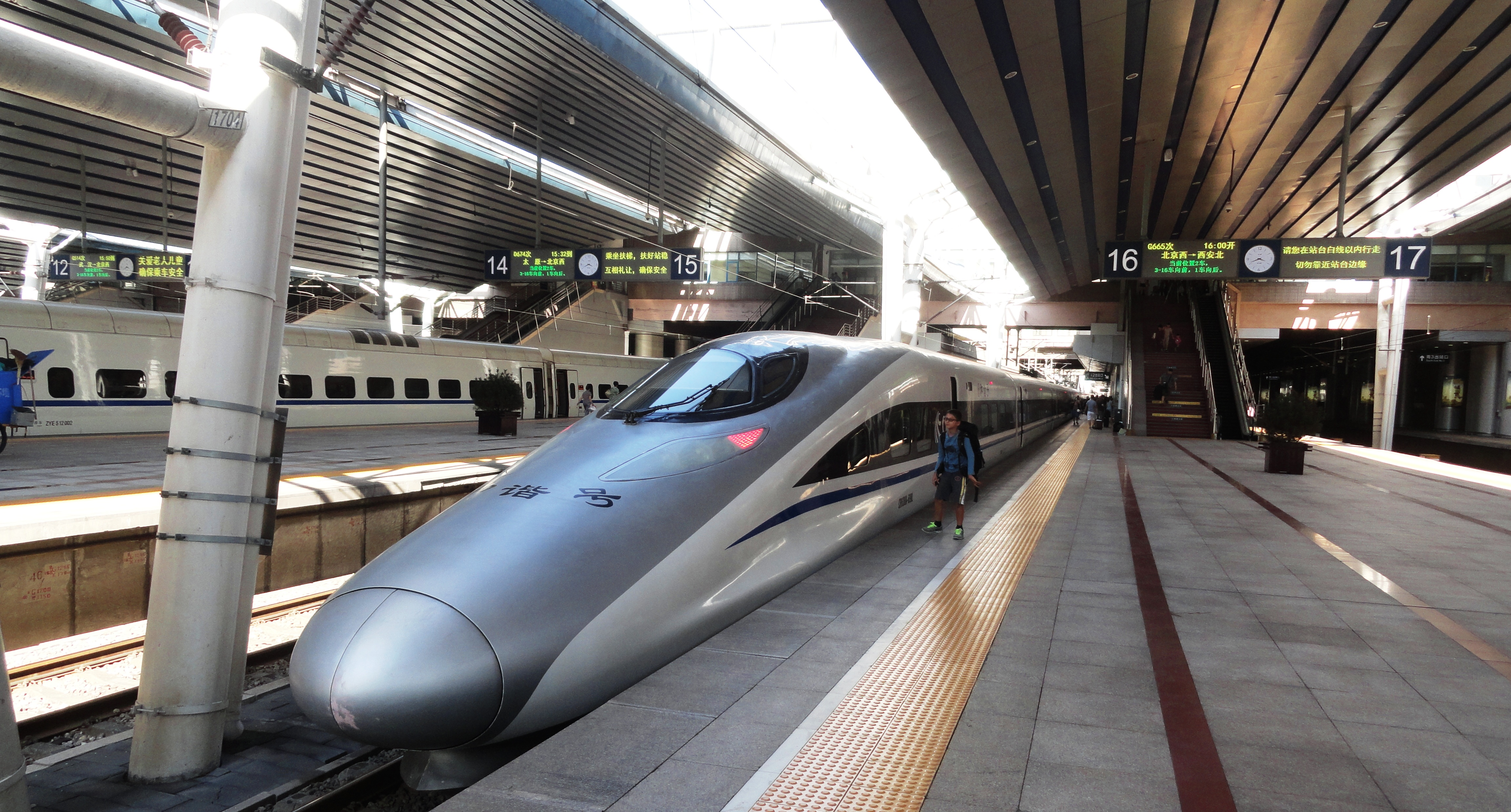 G category high speed train (G665 to Xi'an North) at Beijing West Railway Station, China